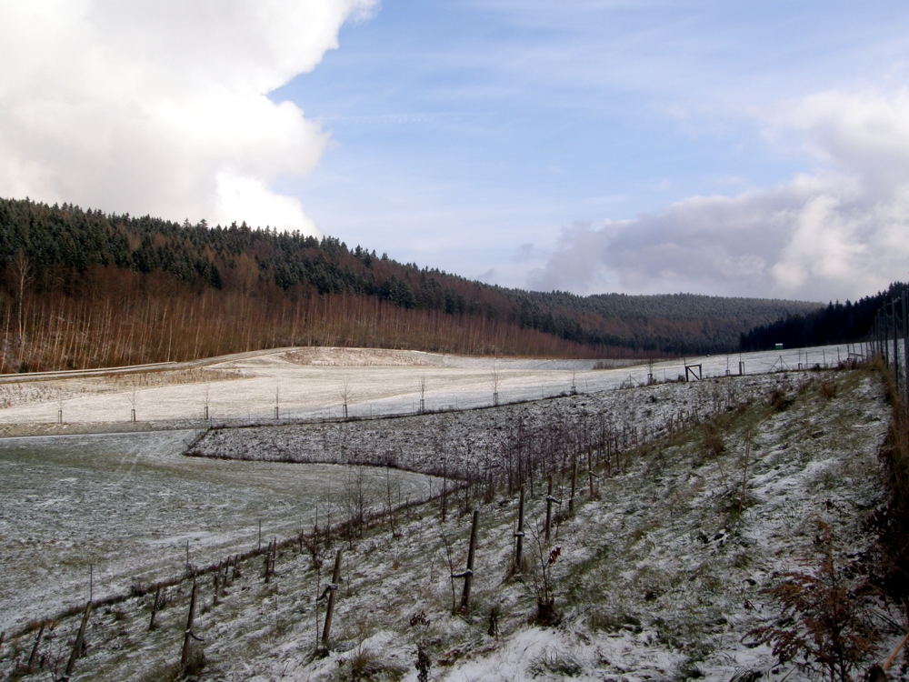 The recultivated dump of the former uranium mine Poehla, Ore mountains, Saxony, Germany